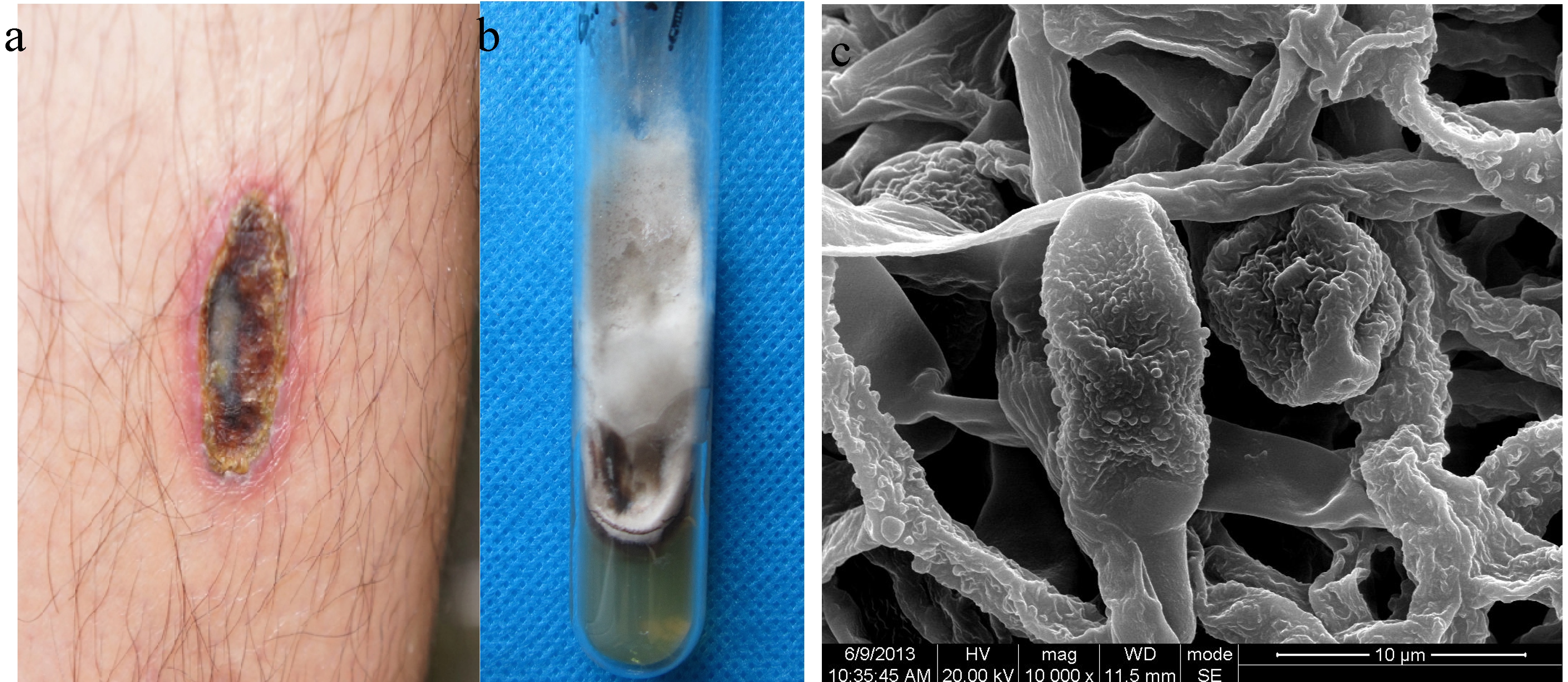 a. Ulcer with an overlying crust on the patient’s skin of left anterior tibia. b. Fungal culture of the tissue revealed dark grey-white colonies with a dark-brown underside. c. SEM observation of slide culture revealed beaked conidia.